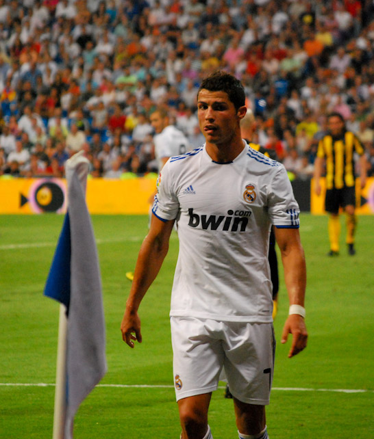 Cristiano Ronaldo playing for Real Madrid (Trofeo Santiago Bernabéu 2010, 2-0 vs Peñarol)